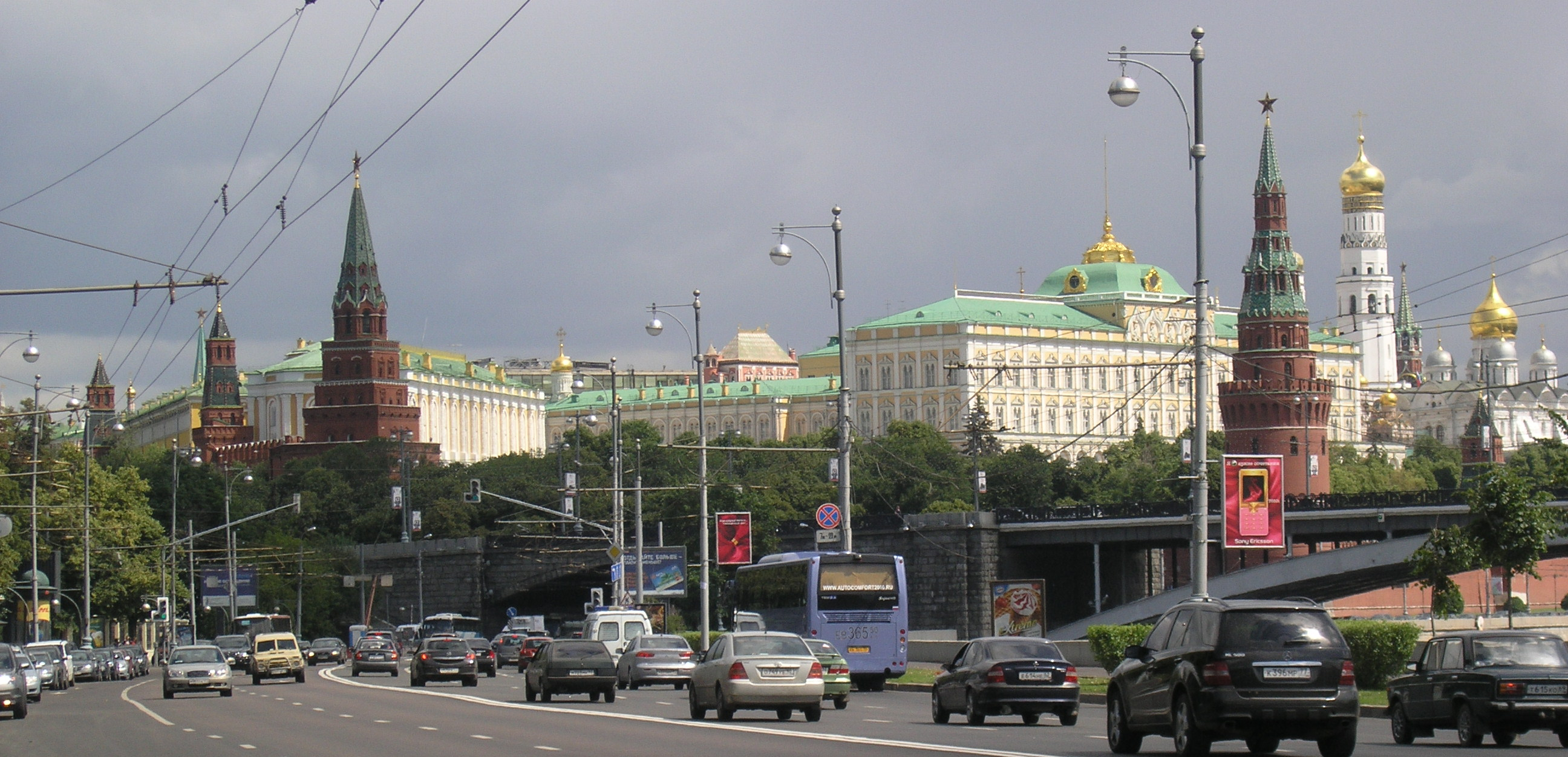 Moscow Kremlin, Prechistenskaya embankment